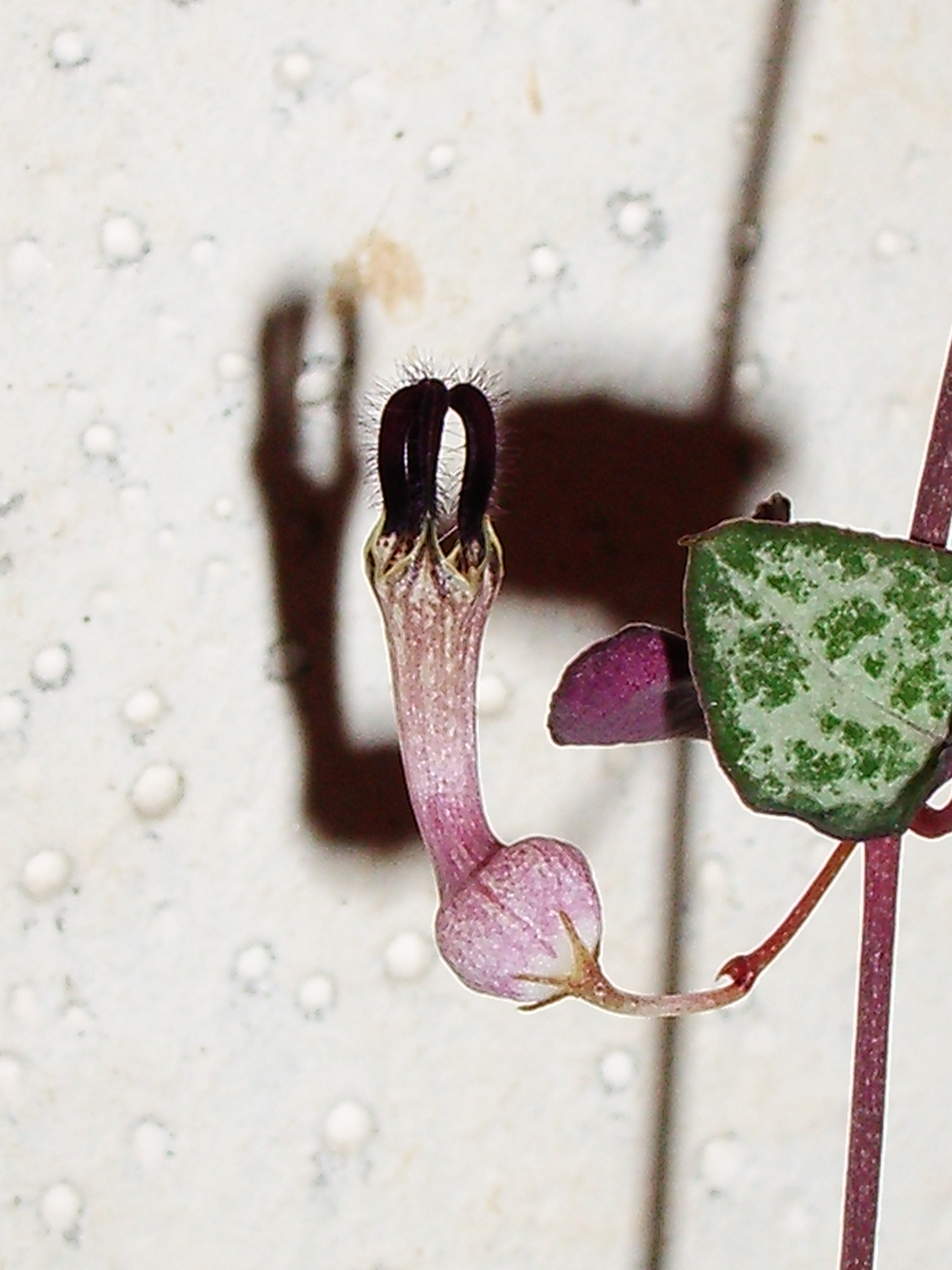 Flower of Ceropegia woodii (plant collection of Margarita Shamardina, Berdsk, Russia)